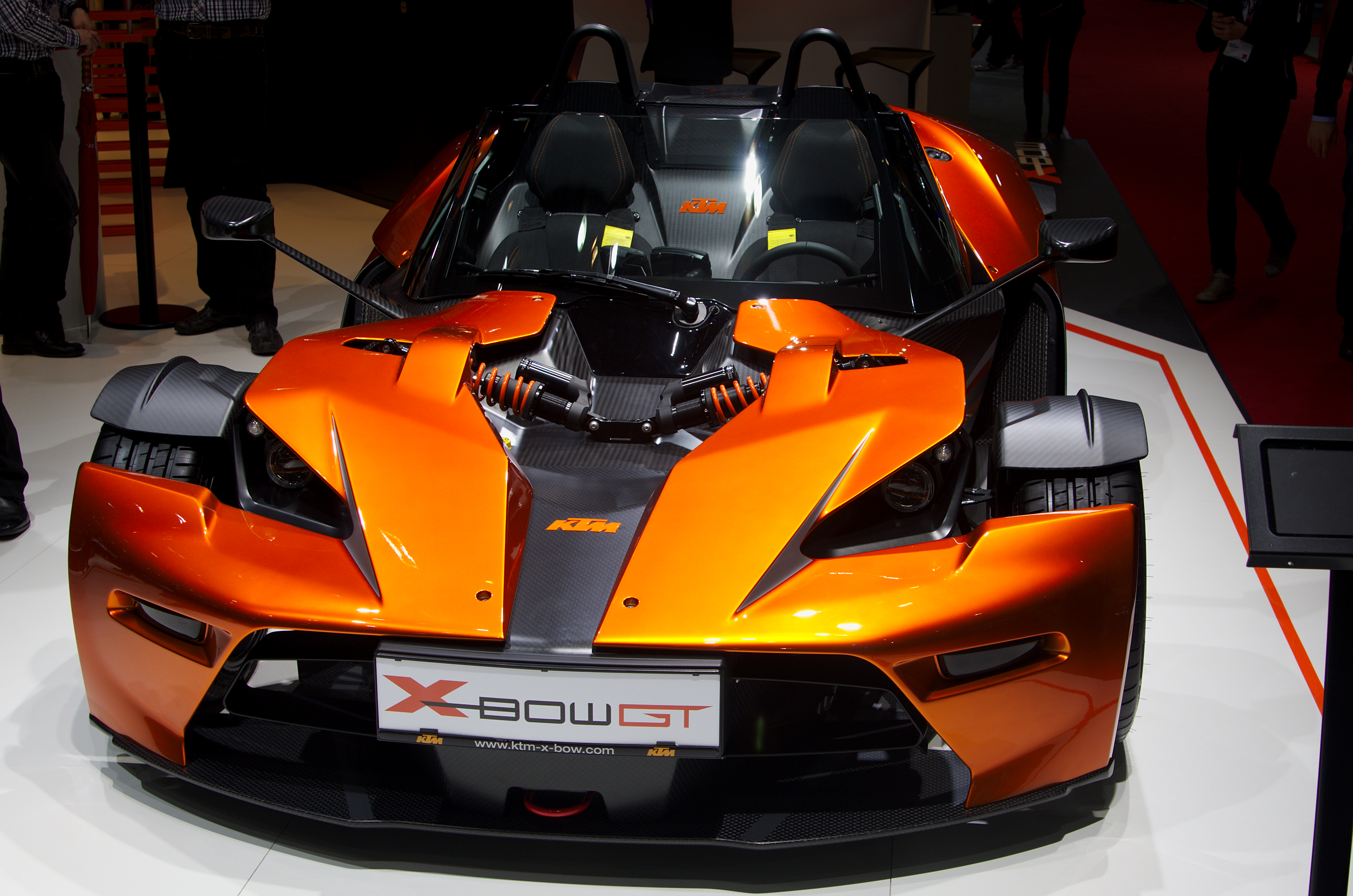 Geneva MotorShow 2013 - KTM X-bow GT orange